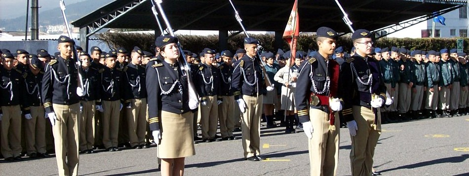 COTAC - 2012 - Cadets in ceremony of civic act